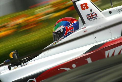 Justin Wilson, 2005 Toyota Grand Prix of Long Beach, Long Beach California